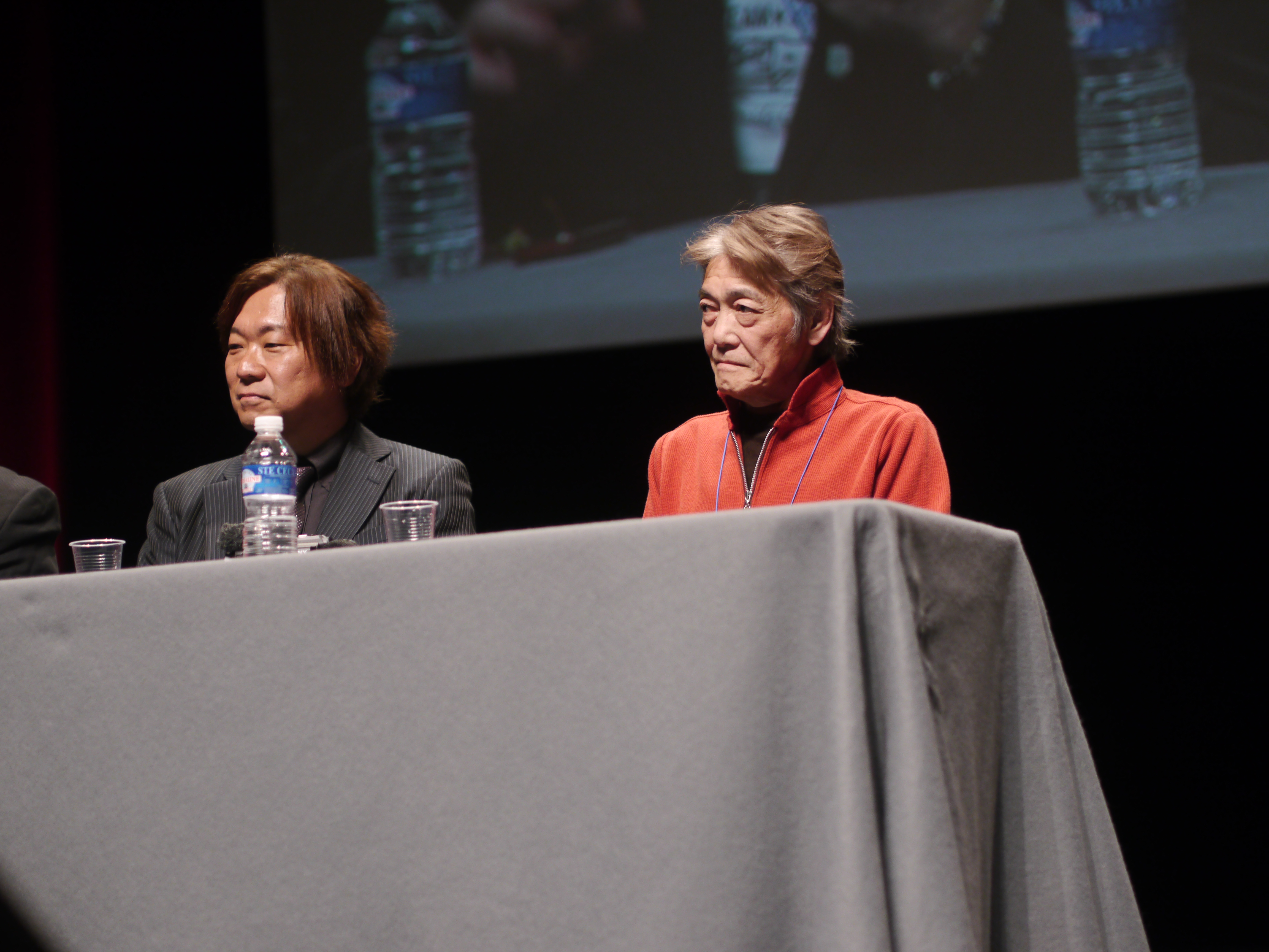 Cartoonist festival - official site